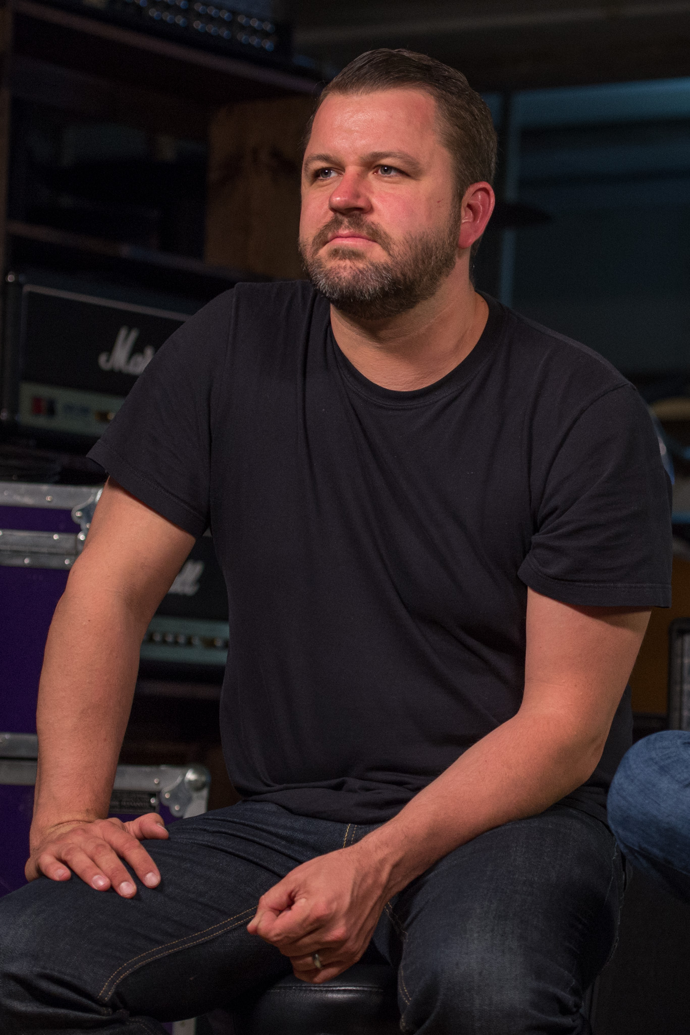 Brandon Barnes giving an interview at The Republik in Honolulu, Hawaii. This photograph was taken by Peter Chiapperino, a concert photographer that goes by Photocyclone in Lexington, Kentucky.